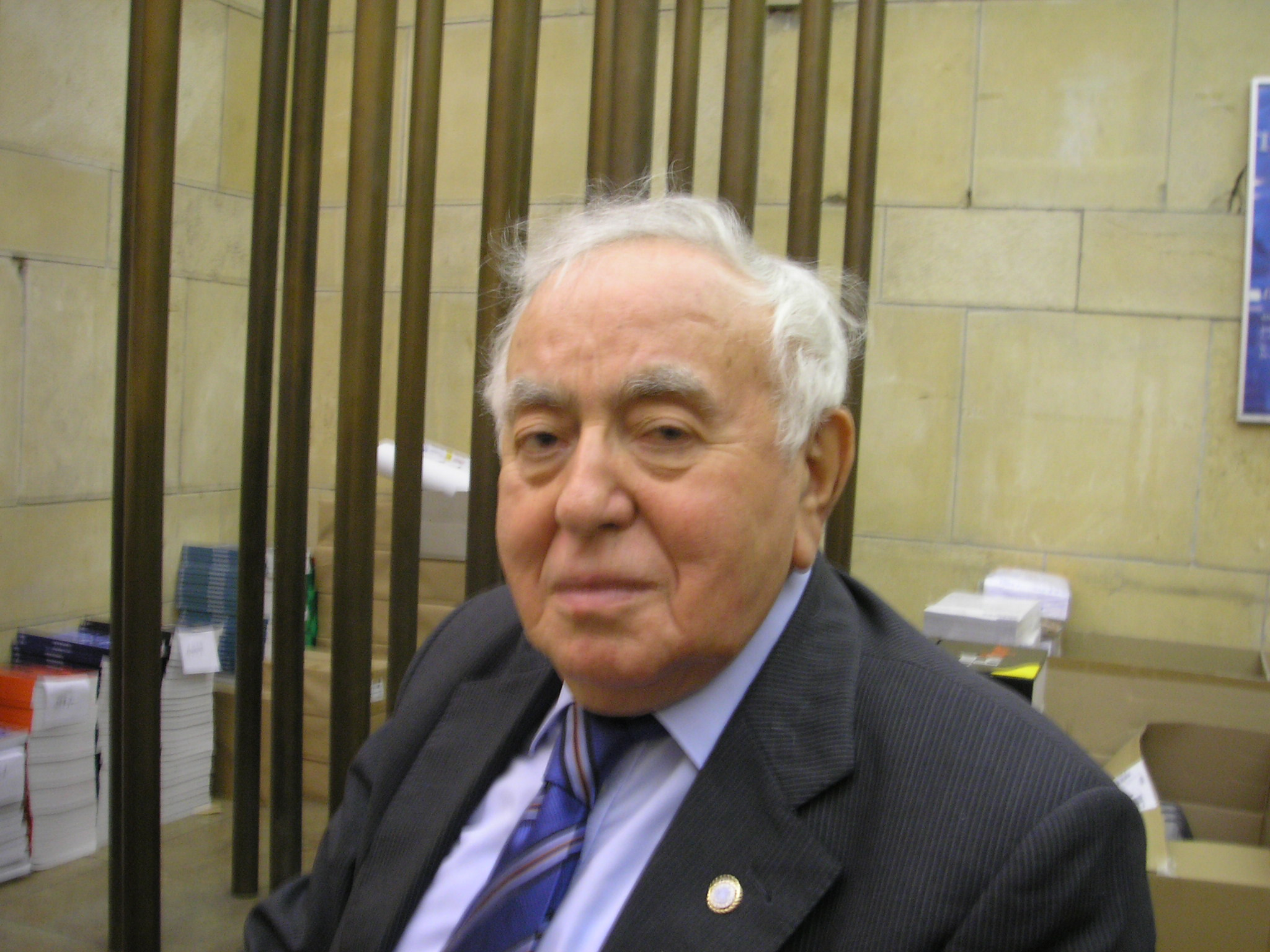 Image of Leon Zelman, founder of the Jewish Welcome Service, in his office in Vienna.